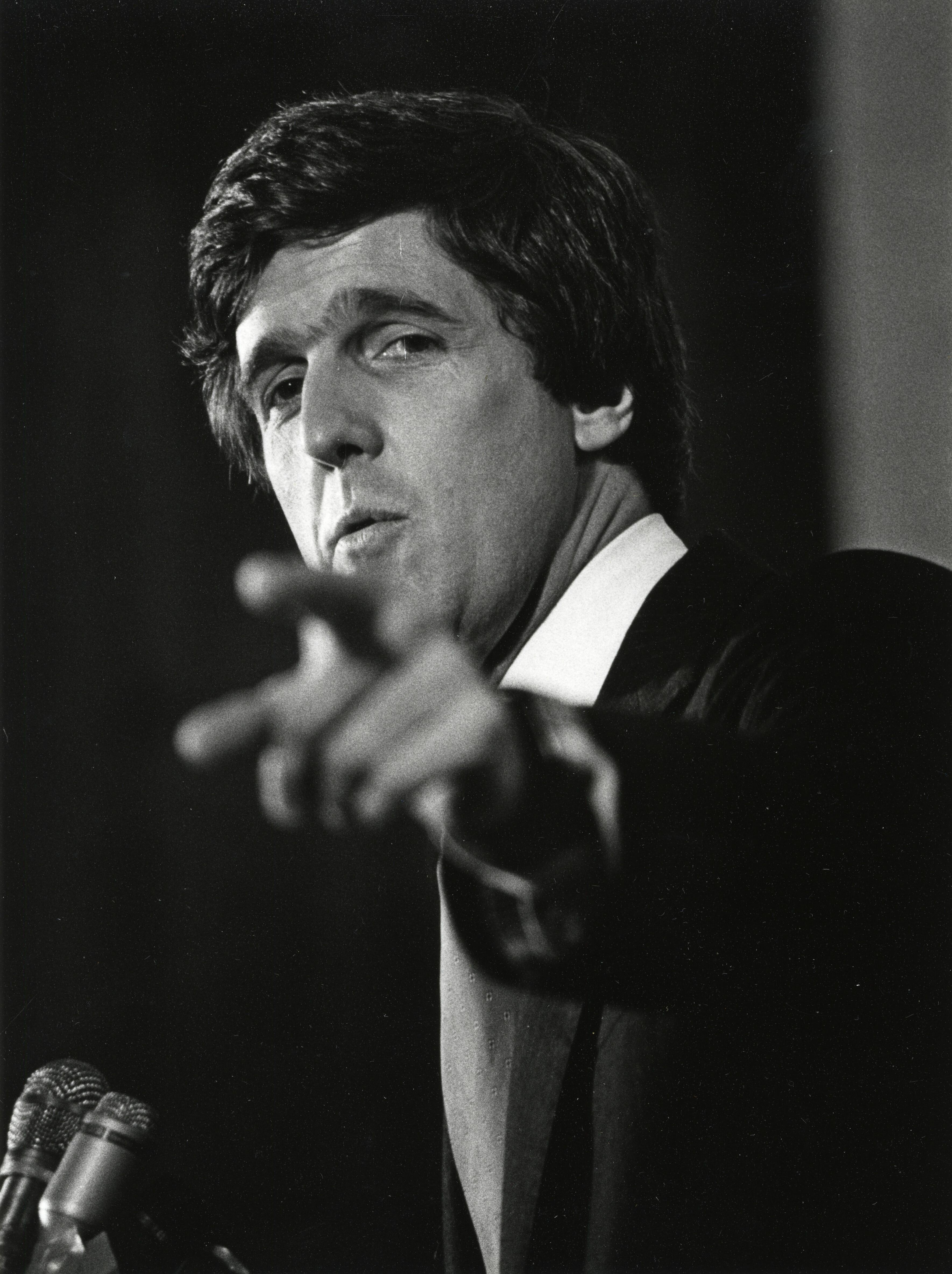 Title: Senate Candidate John Kerry Creator: Mayor's Office - City Photographer Date: 1984 Source: Mayor Raymond L. Flynn records, Collection #0246.001 File name: RF_0245 Rights: Copyright City of Boston Citation: Mayor Raymond L. Flynn records, Collection #0246.001, City of Boston Archives, Boston